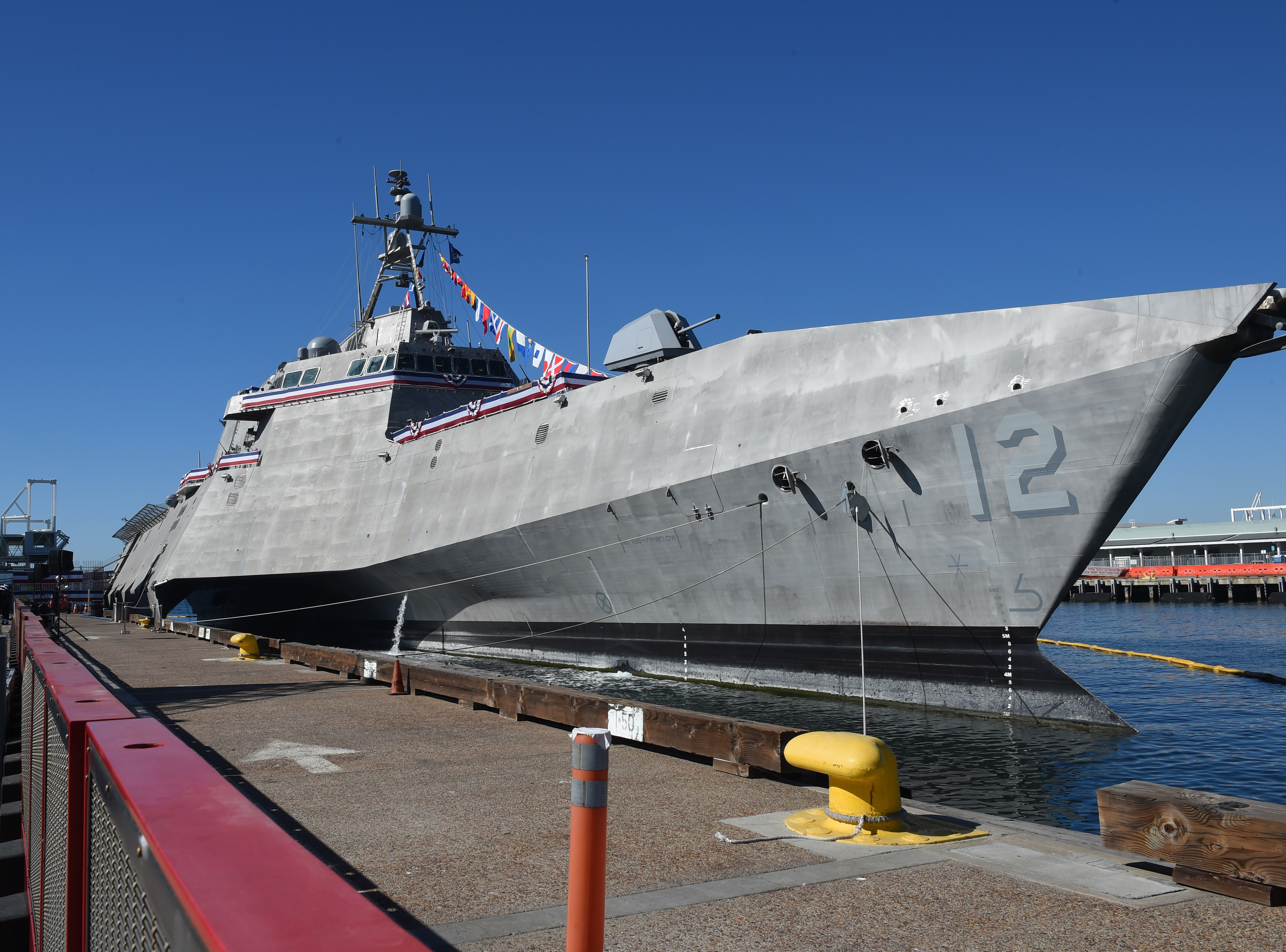 180203-N-CM227-0117 SAN DIEGO (Feb. 3, 2018) The littoral combat ship USS Omaha (LCS 12) is moored during its commissioning ceremony at Broadway Pier in San Diego, California. Omaha is the 11th littoral combat ship to enter the fleet and the sixth of the Independence variant. This ship is the fourth to carry the Omaha name since 1869. The ship is named for the city of Omaha, Nebraska and is assigned to Naval Surface Forces, U.S. Pacific Fleet. (U.S. Navy photo by Mass Communication Specialist 1st Class Marie A. Montez)